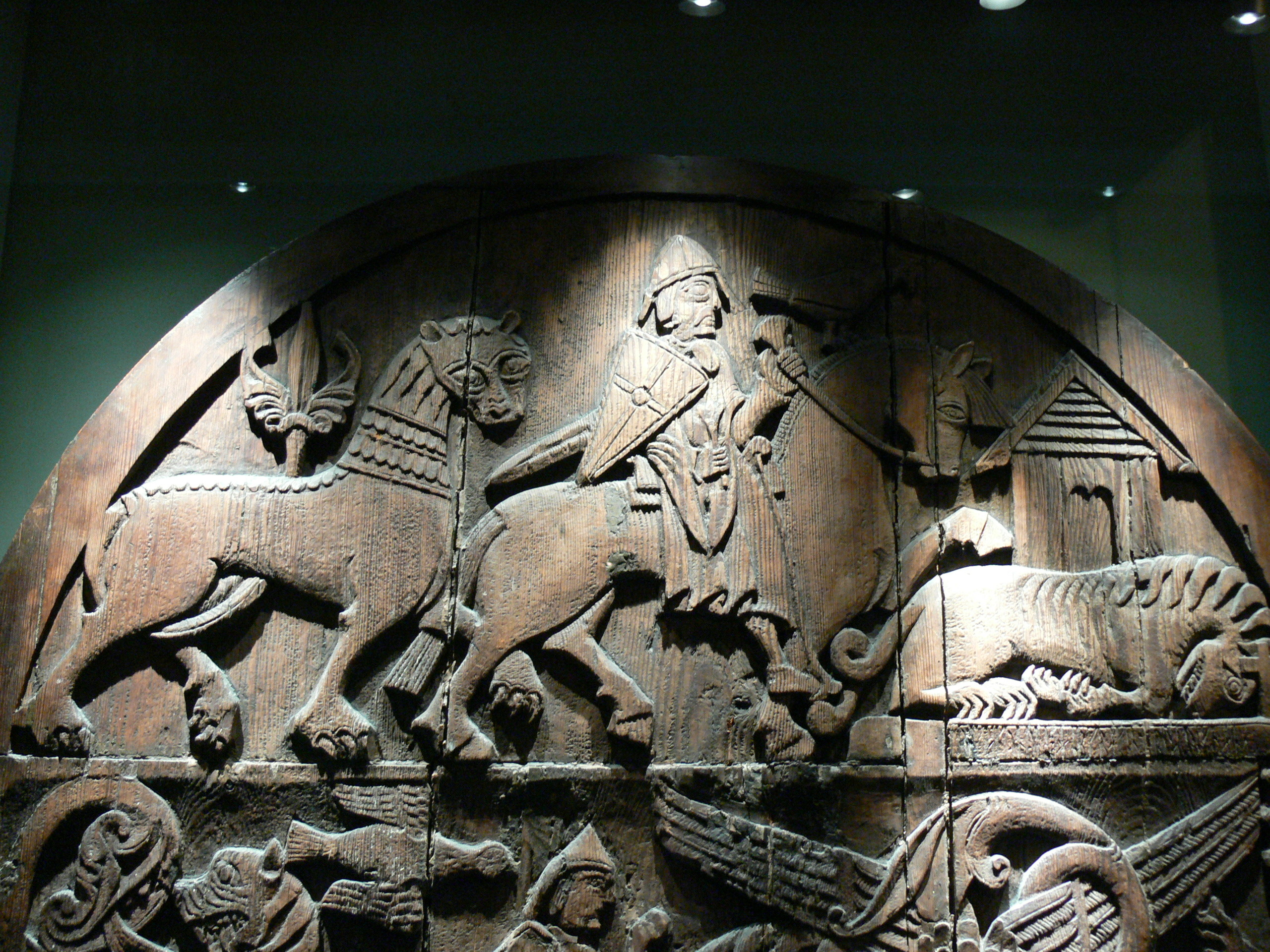 National Museum of Iceland, Reykjavik. The Valþjofstaður door ( ca.1200 AD ): After having saved its life, the knight is followed by lion. After the knight´s death the lion lies mourning on his grave.